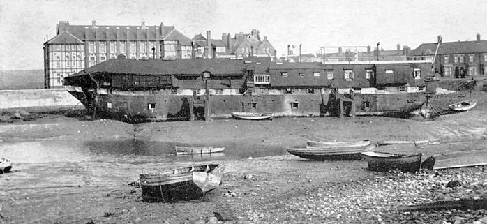 The former HMS Hamadryad as a hospital ship moored in the River Taff in Cardiff, Wales. Behind is the Royal Hamadryad Seamen's Hospital in the final stages of building. The hospital was built in 1902-1905 and the ship was towed away in 1905.